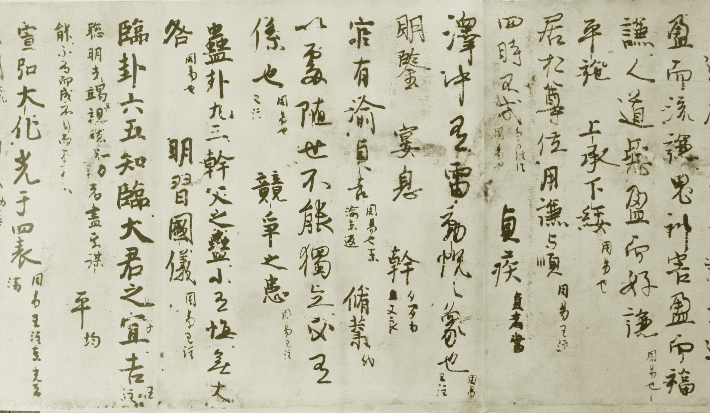 A part of Notebook handscroll of I_Ching(Book of Change) written by Emperor Uda(867 – 931), Higasiyama Imperial Library, Kyoto, Japan